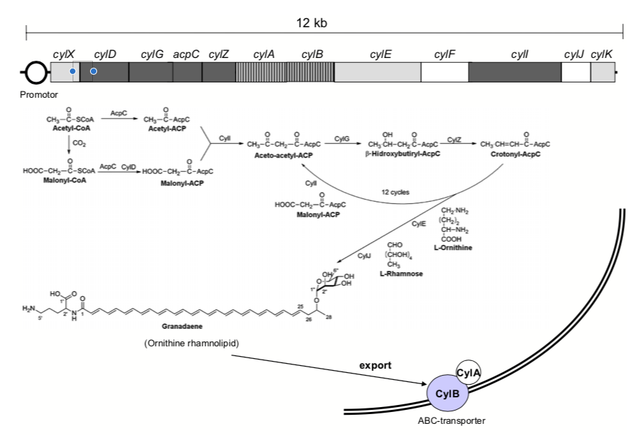 A representation of the 12 genes belonging to the cyl gene cluster of GBS and the theoretical biosynthetic steps toward granadaene formation. FEMS Microbiol Rev 2014 38:1–15